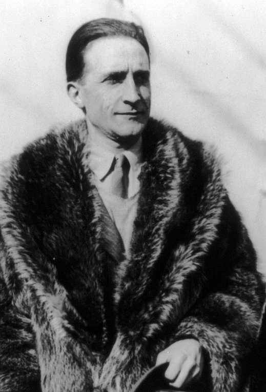 French artist Marcel Duchamp (1887-1968)